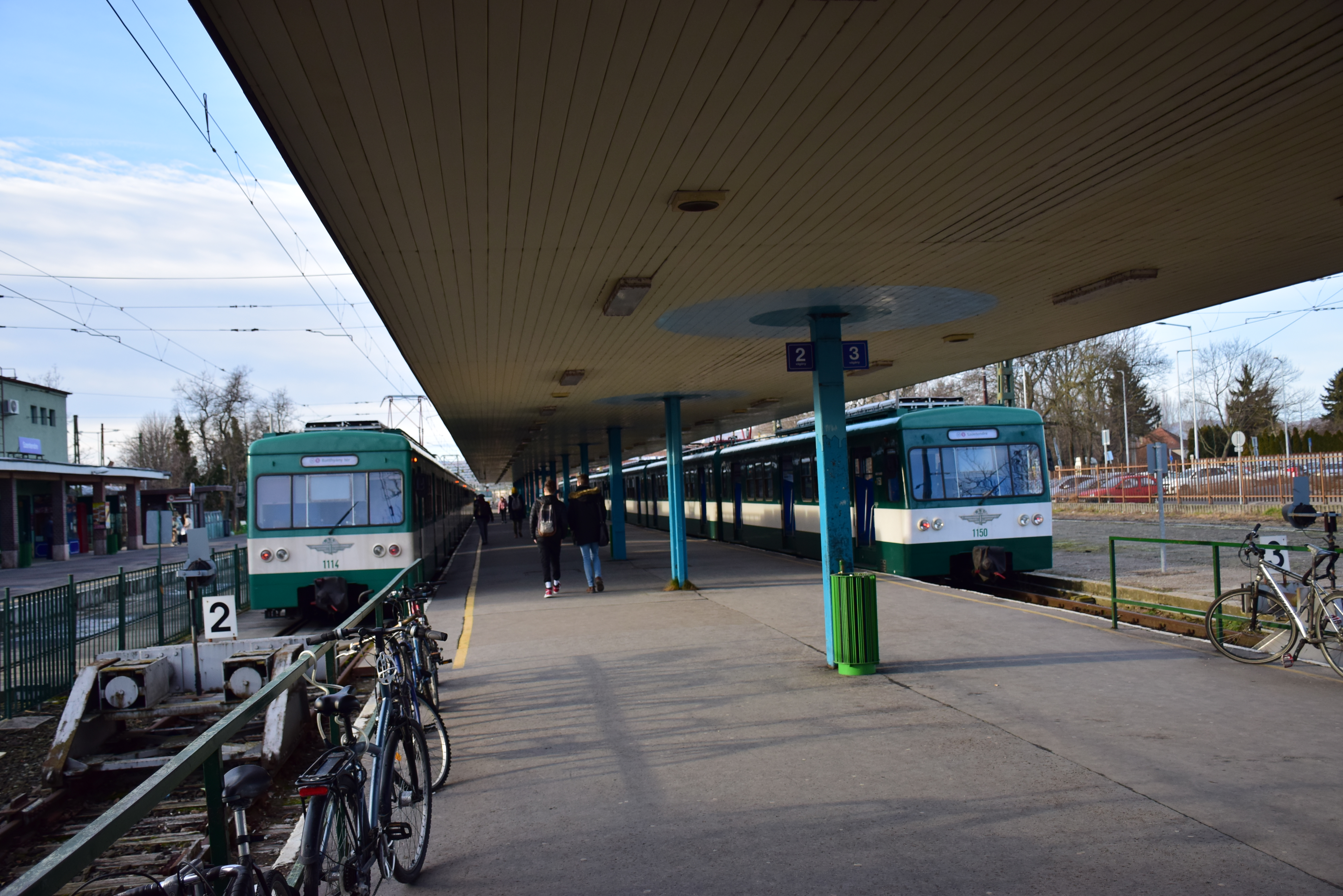 Szentendre HÉV station